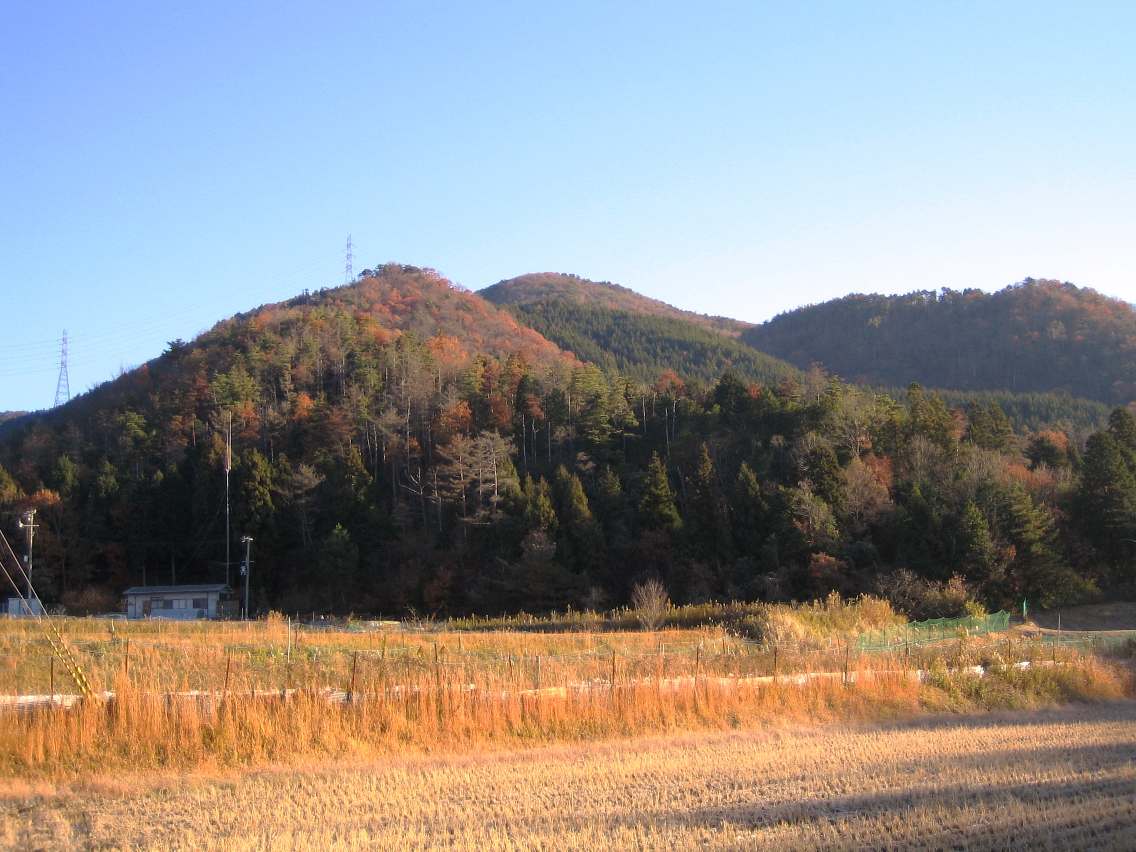 Mount Kenpi's foot seen from the southwest. We can't to see Mount Kenpi's top. Mount Gyoja on the left foreground.